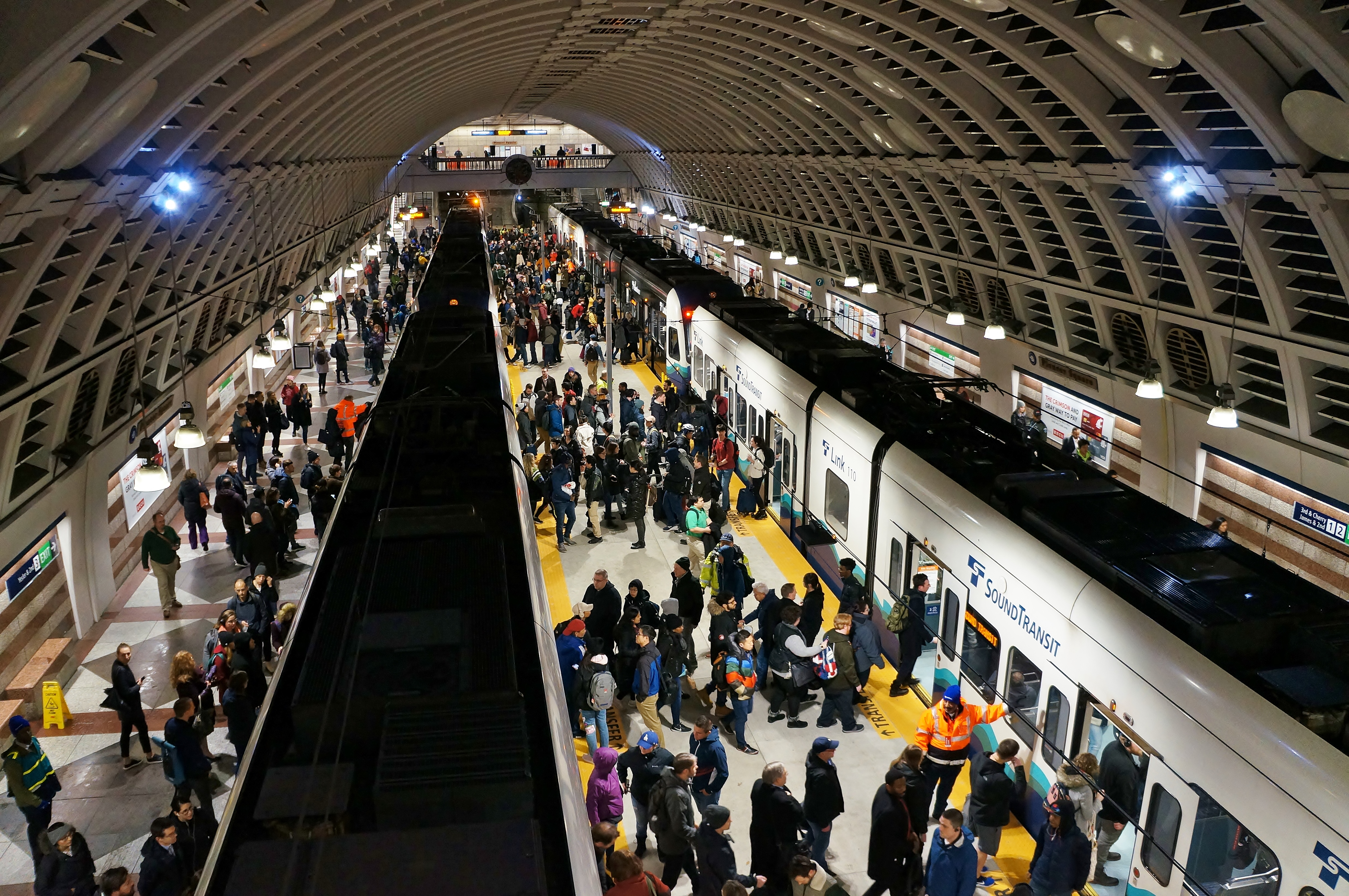 A view of the center platform at Pioneer Square station, installed by Sound Transit for the Connect 2020 program. Trains are single-tracked through downtown Seattle and passengers continuing onward transfer to the waiting train across the platform.